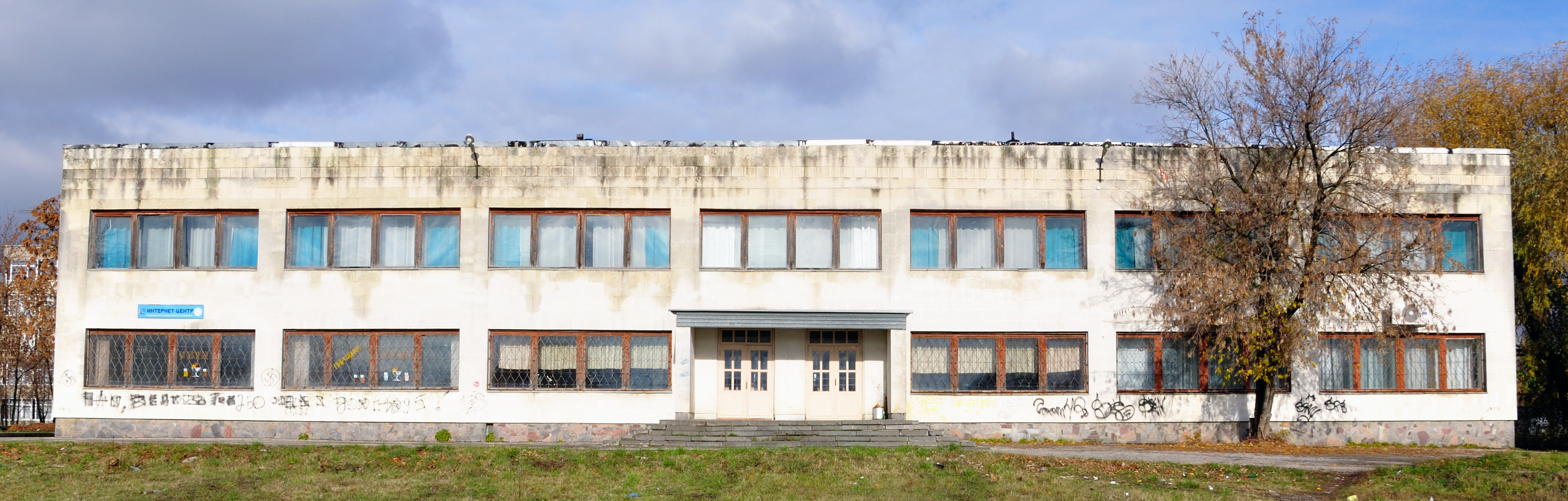 Russia, Vladimir, pr.Stroiteley, d.5 building